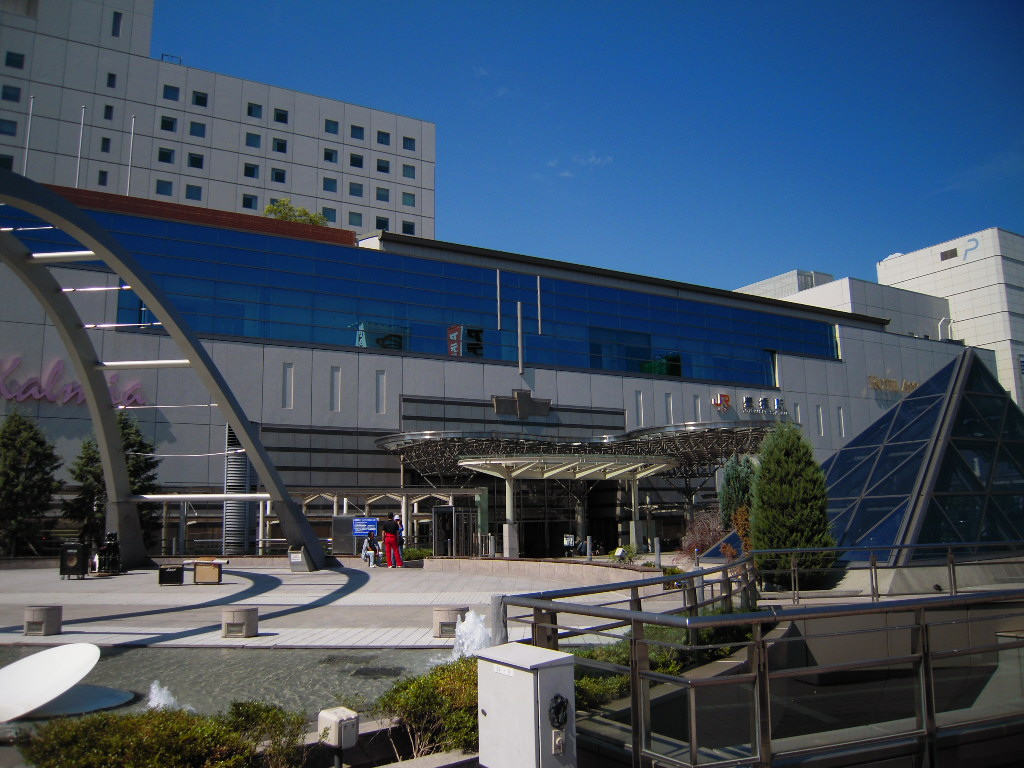 Toyohashi Station